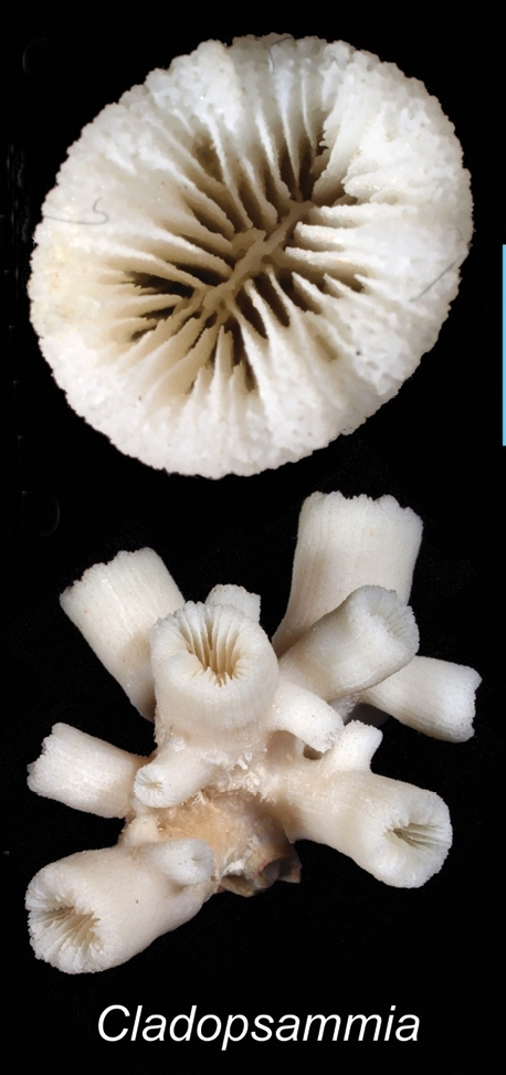 Cut-outs from original files: Recent_azooxanthellate_Scleractinia_(Cnidaria,_Anthozoa)_-_ZooKeys-227-001-g001 - 023